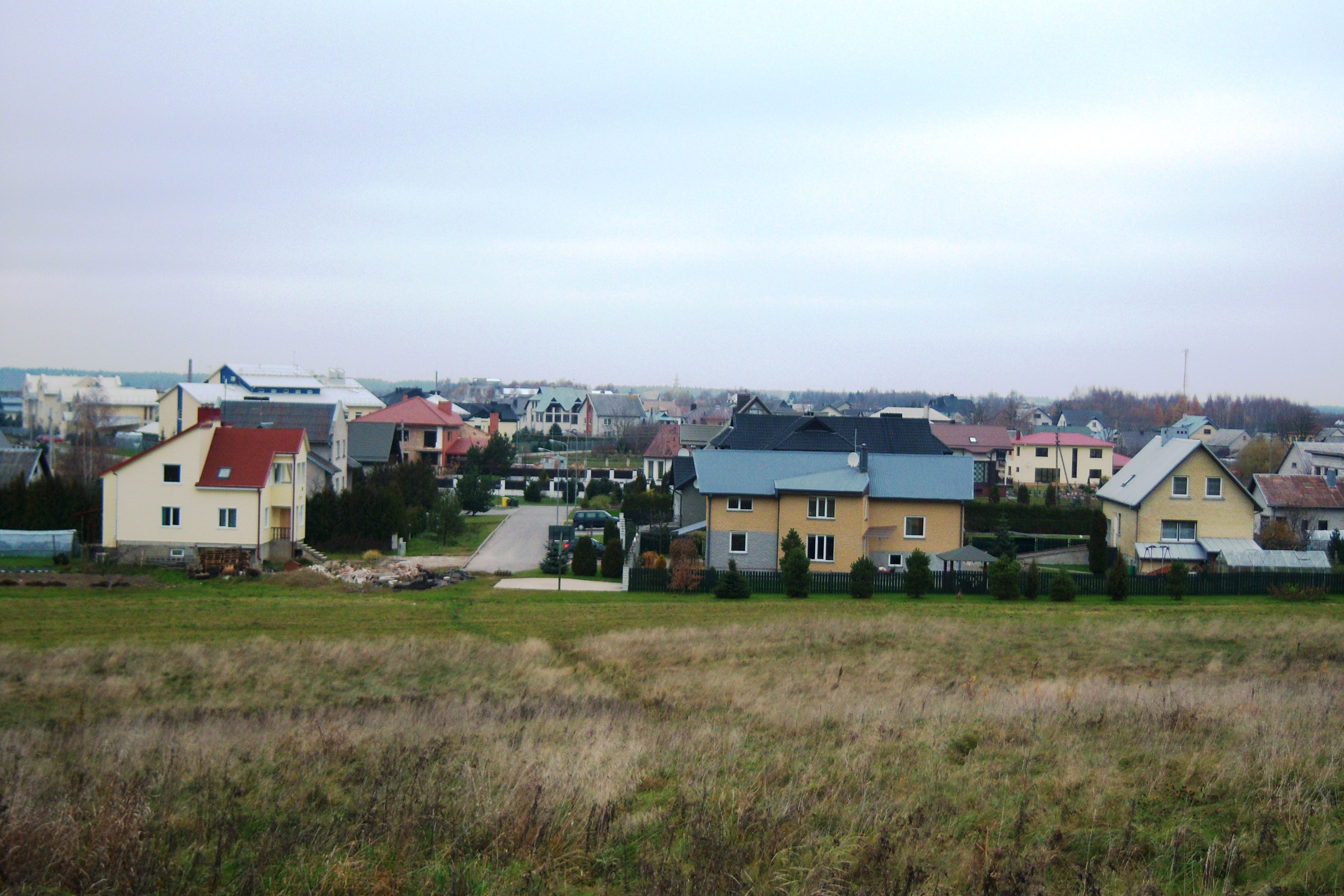 Giraitė, view from the 9-th Fort, Kaunas District. Lithuania